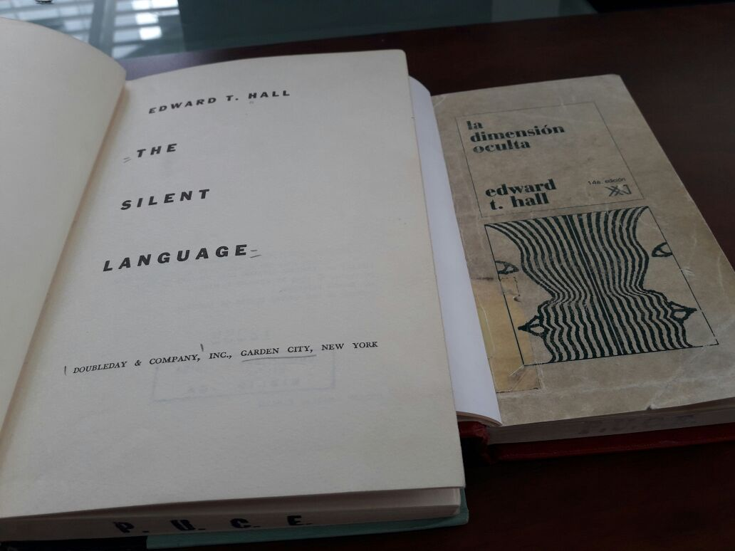 Edward Hall books in Pontifical Catholic University of Ecuador.